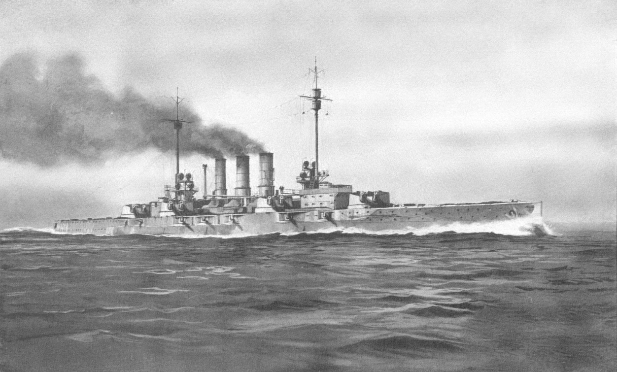 A recognition drawing of the German battleship Helgoland prepared by the Royal Navy's Intelligence department that was distributed to the fleet in 1918. The printing plates were also given to the United States Navy and also published in the US in 1918.